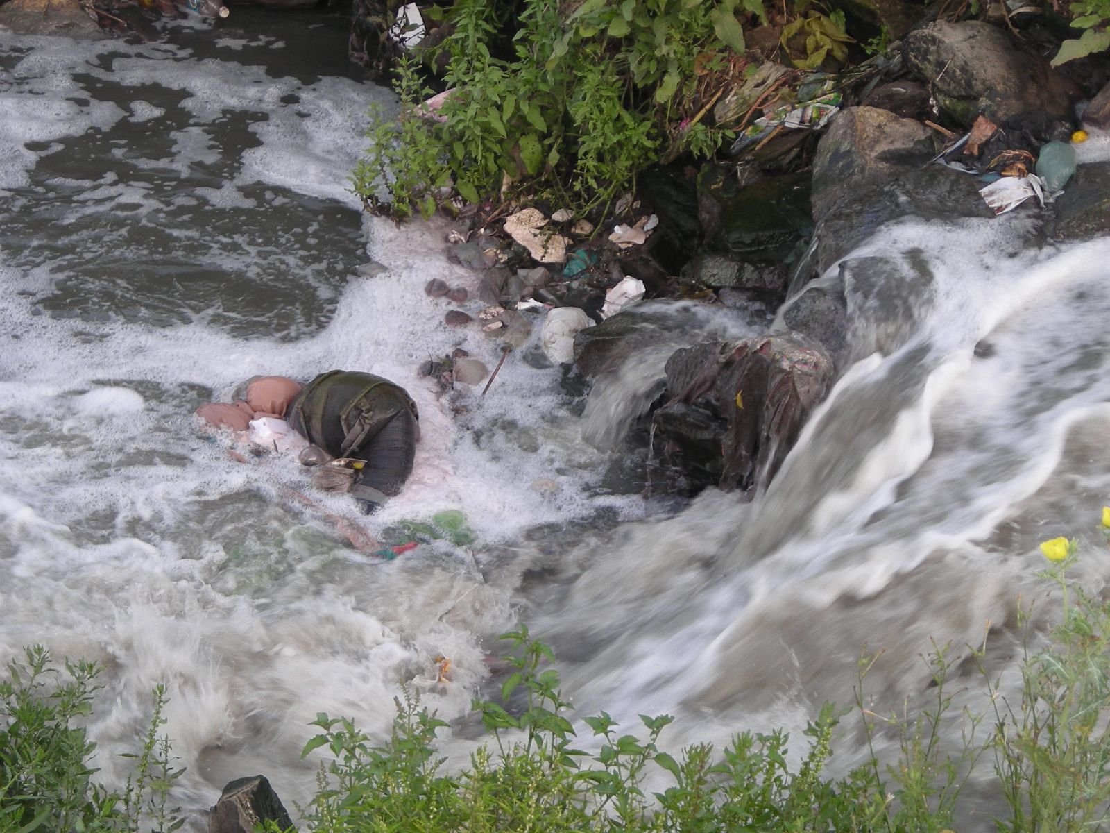 Lots of waste stuff flowing in river Ganges